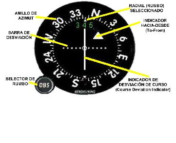 Indicador CDI